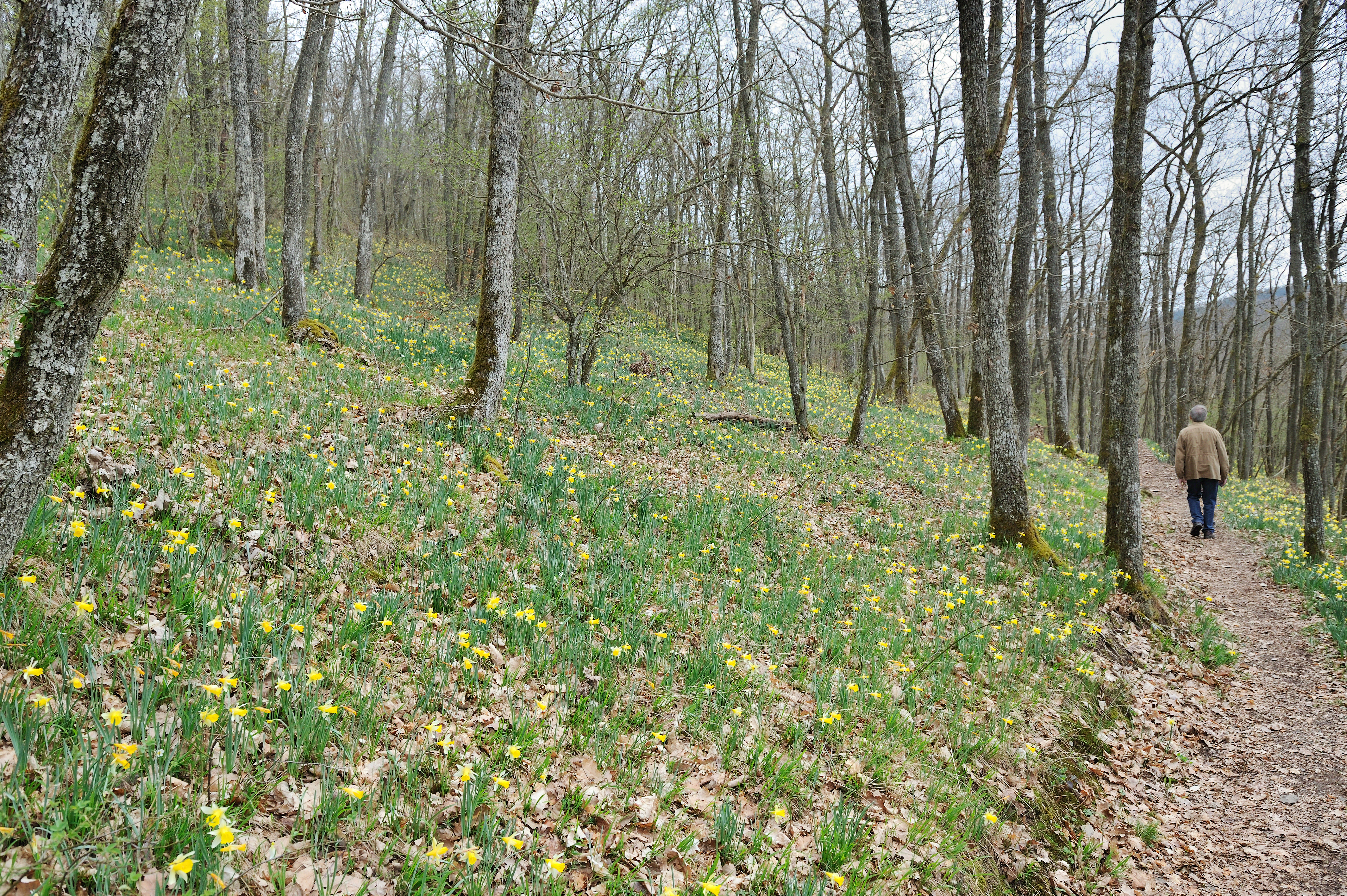 Lellingen (Luxembourg), lieu-dit am Lor: a population of wild daffodils (Narcissus pseudonarcissus).